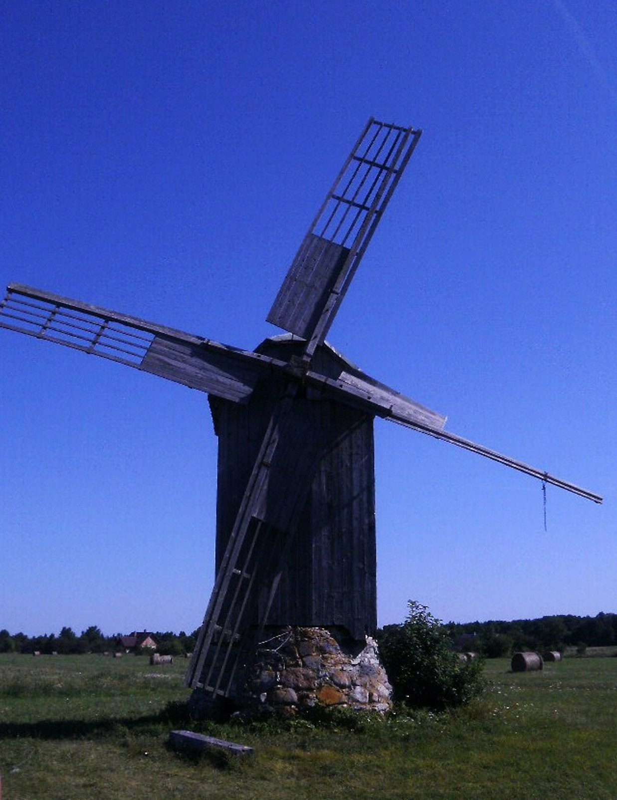 The windmill in Abruka island, Estonia.